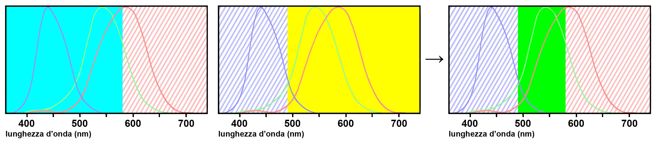 Two ideal subtractive primaries, yellow and cyan, are mixed and produce green. These dyes are ideal since they transmit all frequencies in their pass-bands and nothing in their stop-bands.